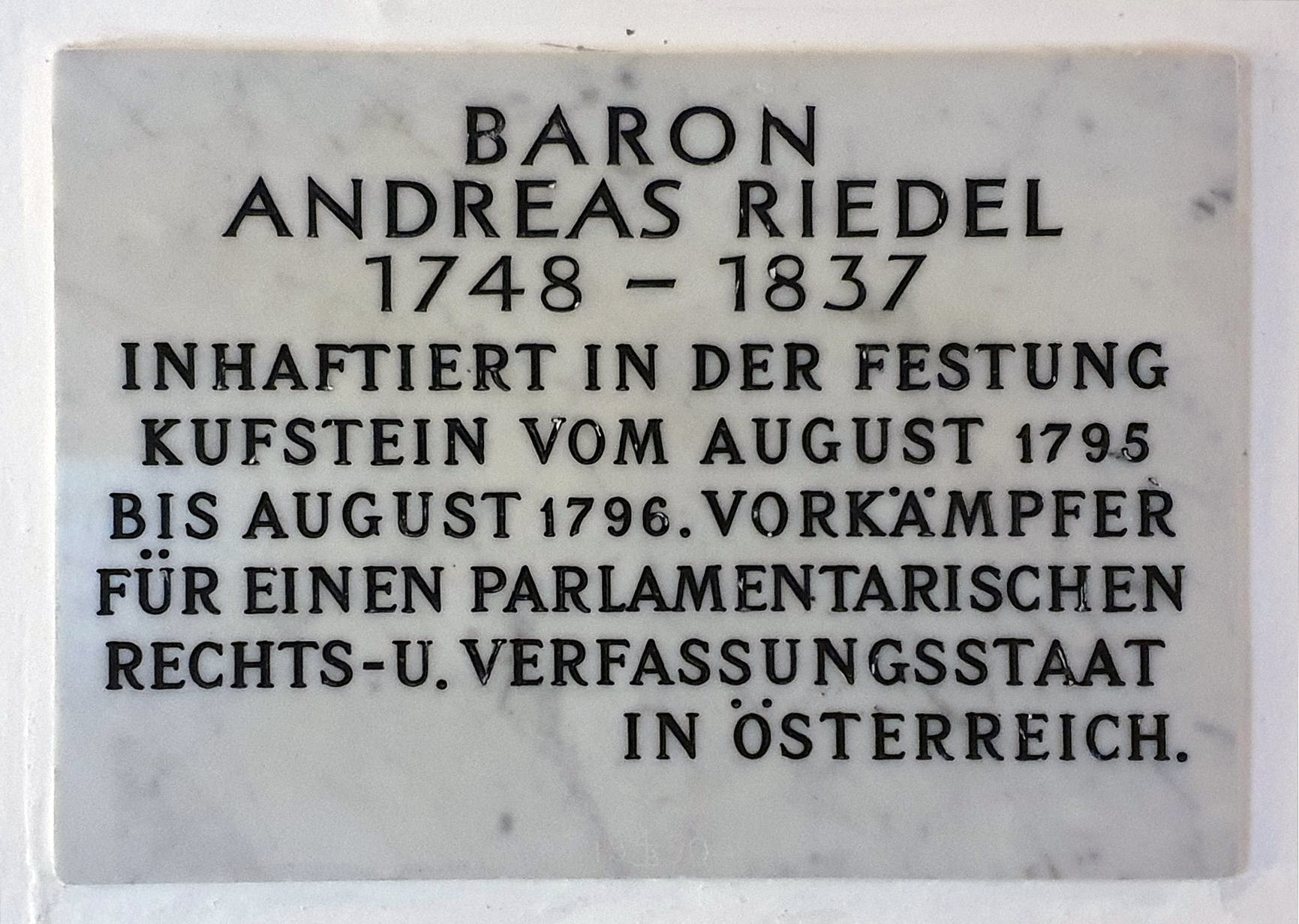 Memorial plaque, Andreas Riedel, Festung 2, Kufstein, Österreich